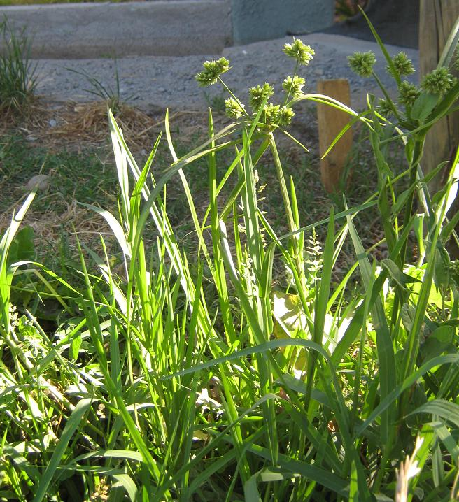 Cyperus eragrostis — common names: hualcacho and tall flatsedge. Street weed in San Francisco de Mostazal, Chile.